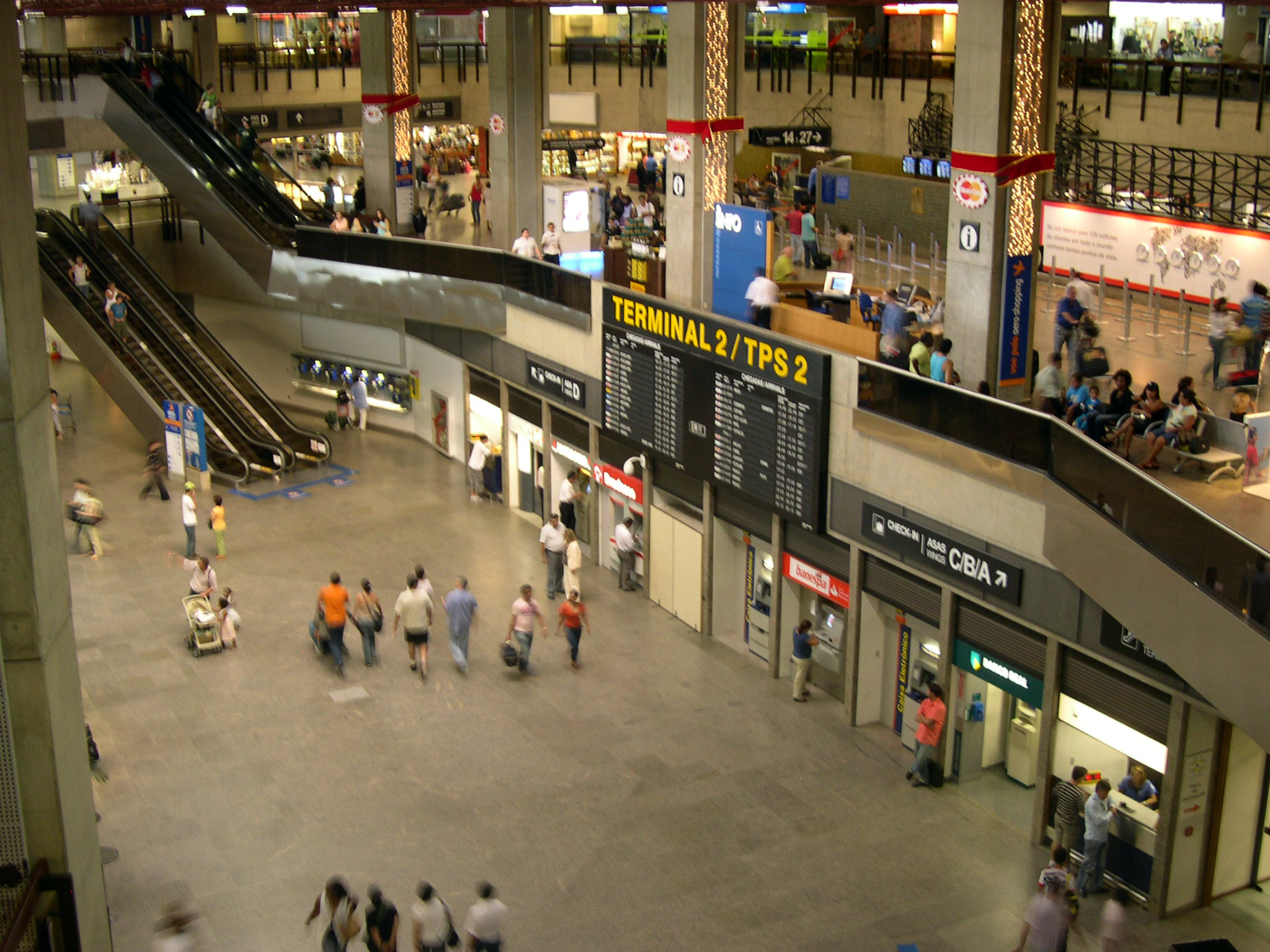 Internal view of São Paulo/Guarulhos International Airport's Terminal 2